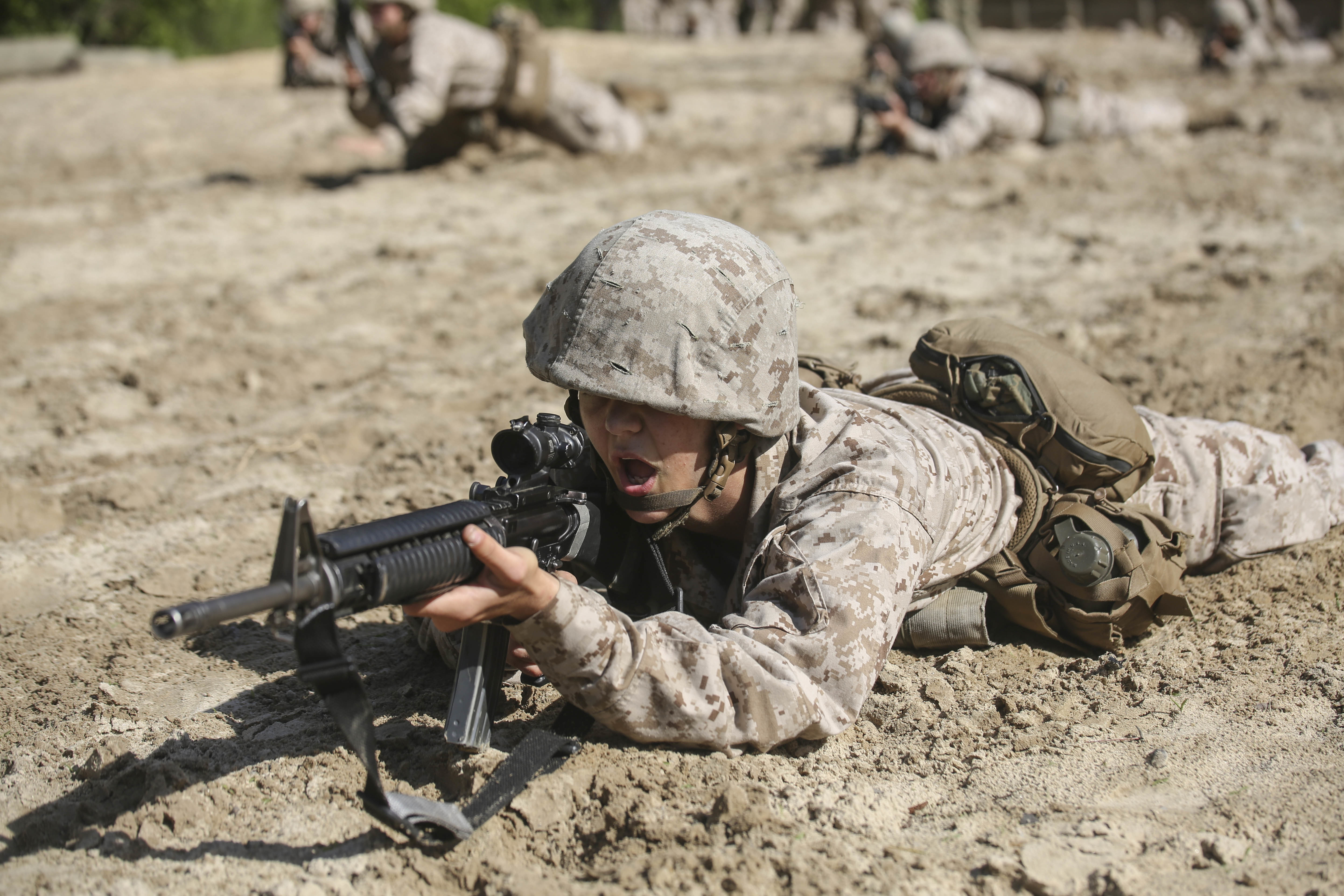 U.S Marine Corps recruits with Papa Company, Fourth Recruit Training Battalion prepare to do the Day Movement Course during Basic Warrior Training (BWT), at Paige Field on Parris Island, S.C., April 17, 2019. BWT is a week-long training event that teaches recruits the basics of combat survival and advanced rifle maneuvers. (U.S. Marine Corps photo by Pfc. Athena Silva/Released)